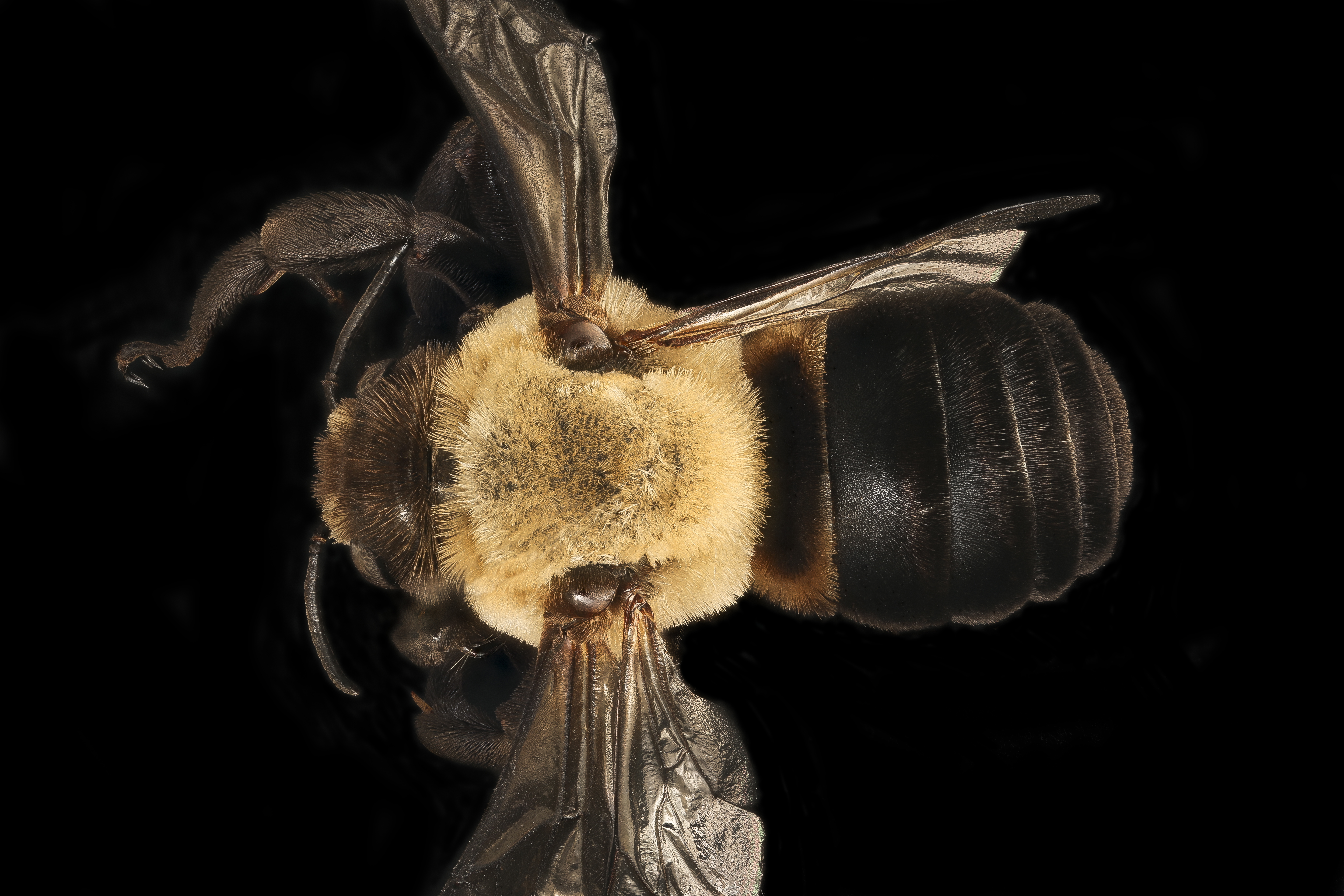 I have nicknamed this bee (Ptilothrix bombiformis) the refuge bee because it is found so often on National Wildlife Refuges. Why? Well this species is a hibiscus specialist and refuges are full of impoundments and those impoundments often have fresh water hibiscus plants in them. Interestingly, this species has decided that non-native mallows planted by homeowners have acceptable pollen and thus this species can be found in the middle of cities. Picture by Amanda Robinson. 15:44, 8 July 2016 (UTC)15:44, 8 July 2016 (UTC) 0 15:44, 8 July 2016 (UTC)15:44, 8 July 2016 (UTC) All photographs are public domain, feel free to download and use as you wish. Photography Information: Canon Mark II 5D, Zerene Stacker, Stackshot Sled, 65mm Canon MP-E 1-5X macro lens, Twin Macro Flash in Styrofoam Cooler, F5.0, ISO 100, Shutter Speed 200 Beauty is truth, truth beauty - that is all Ye know on earth and all ye need to know " Ode on a Grecian Urn" John Keats You can also follow us on Instagram - account = USGSBIML Want some Useful Links to the Techniques We Use? Well now here you go Citizen: Art Photo Book: Bees: An Up-Close Look at Pollinators Around the World Basic USGSBIML set up: USGSBIML Photoshopping Technique: Note that we now have added using the burn tool at 50% opacity set to shadows to clean up the halos that bleed into the black background from "hot" color sections of the picture. PDF of Basic USGSBIML Photography Set Up: ftp://ftpext.usgs.gov/pub/er/md/laurel/Droege/How%20to%20Take%20MacroPhotographs%20of%20Insects%20BIML%20Lab2.pdf Google Hangout Demonstration of Techniques: or Excellent Technical Form on Stacking: Contact information: Sam Droege 301 497 5840